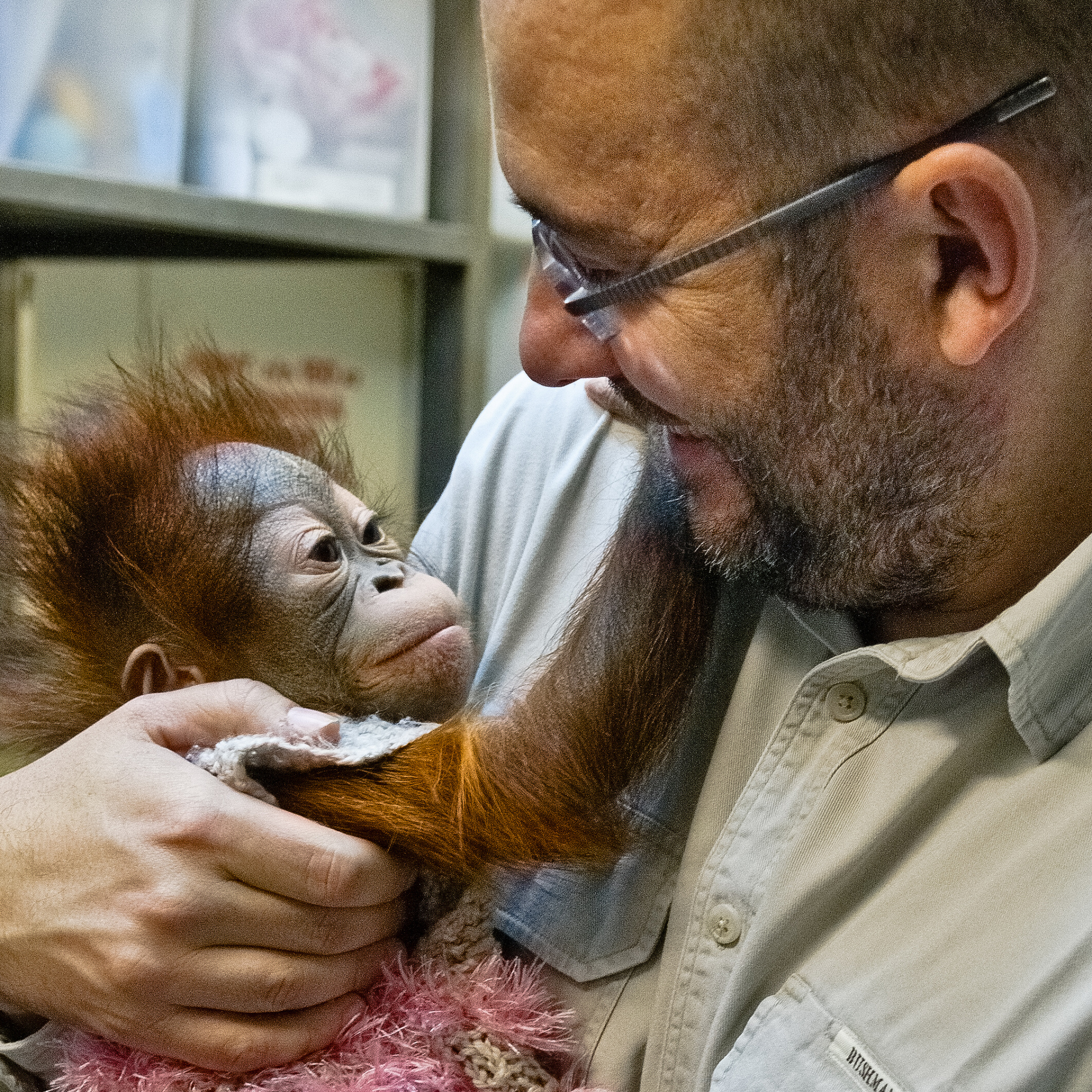 Miroslav Bobek – director of Prague Zoo